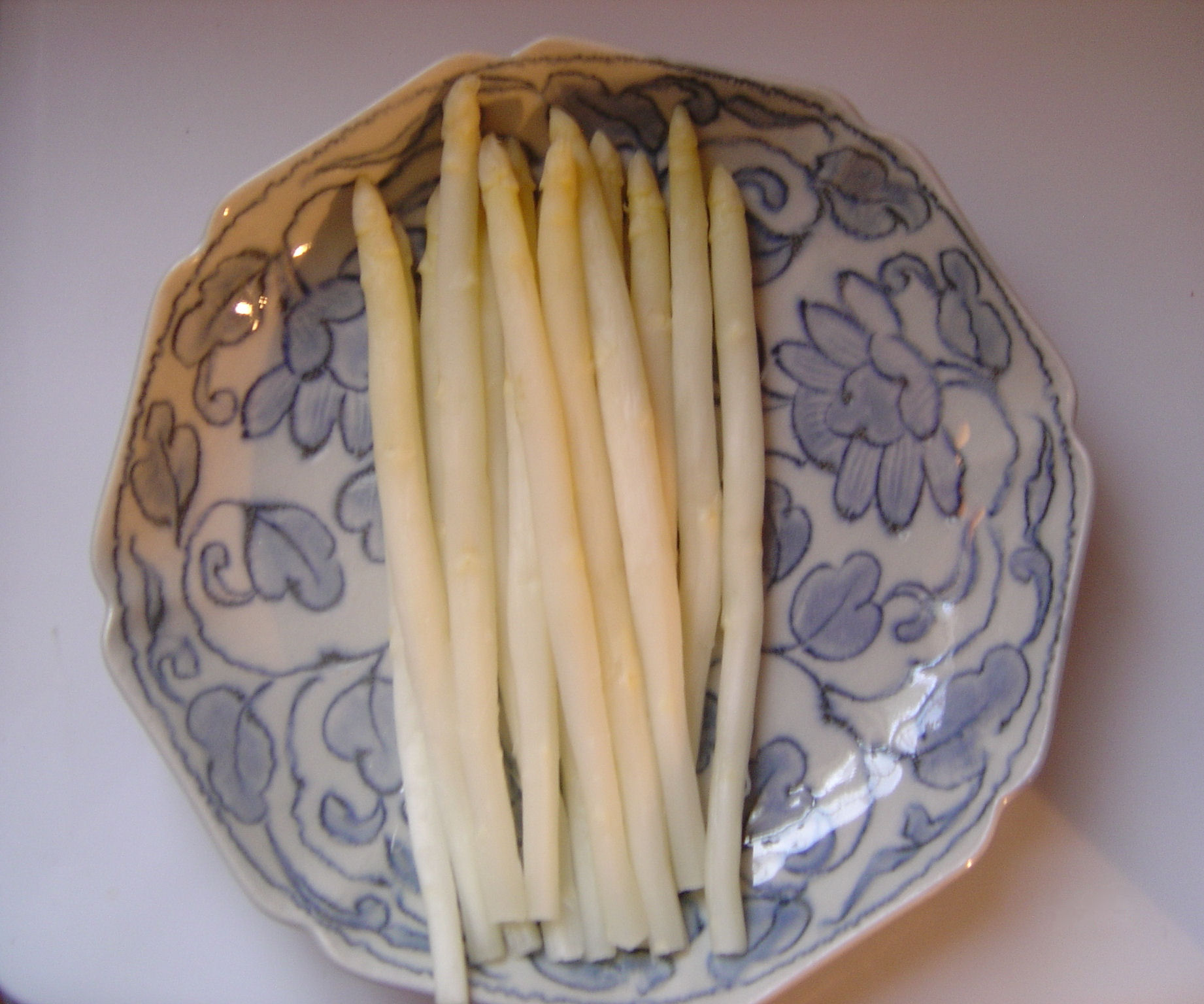 savour of the spring